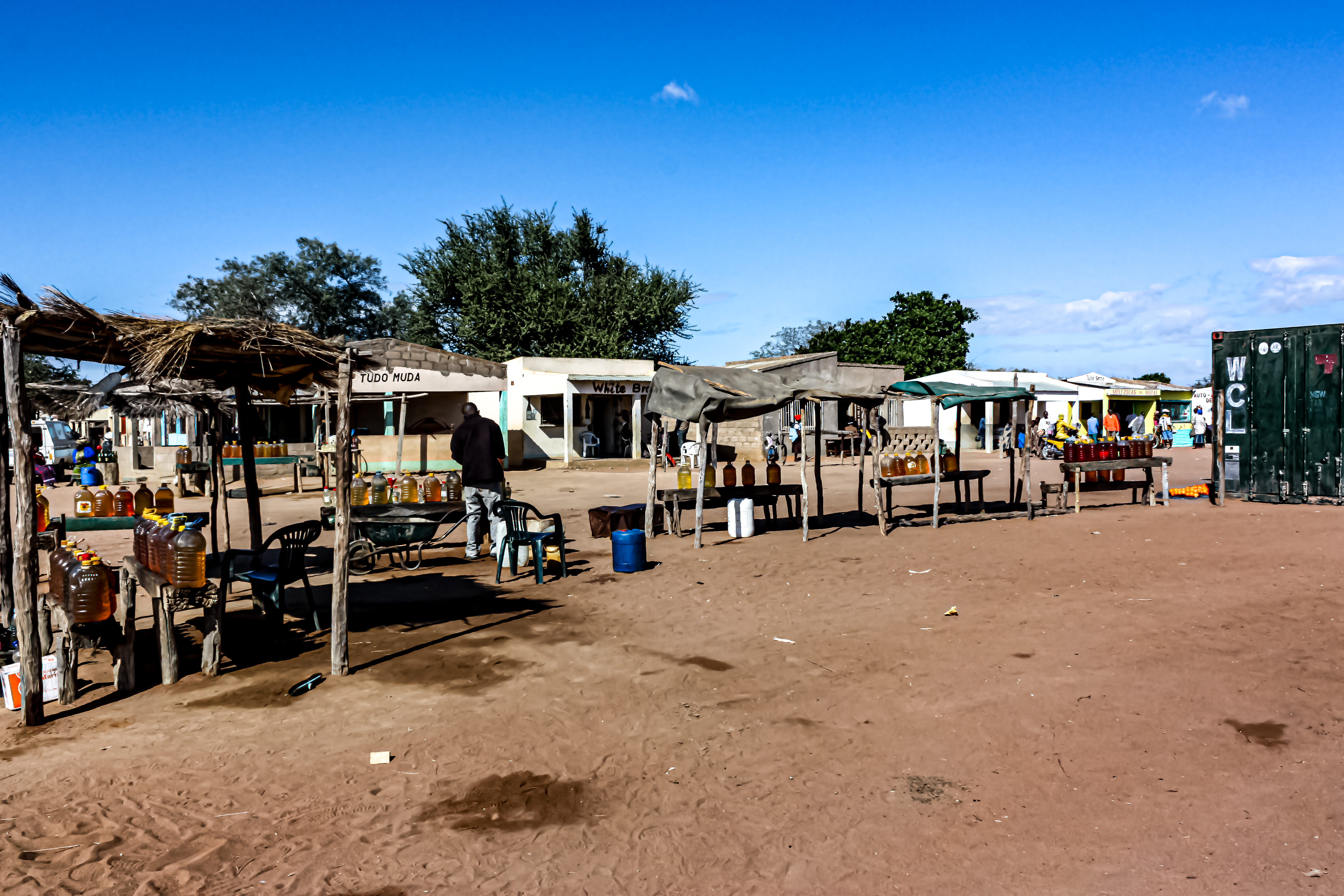 This is an image with the theme "Africa on the Move or Transport" from: Mozambique